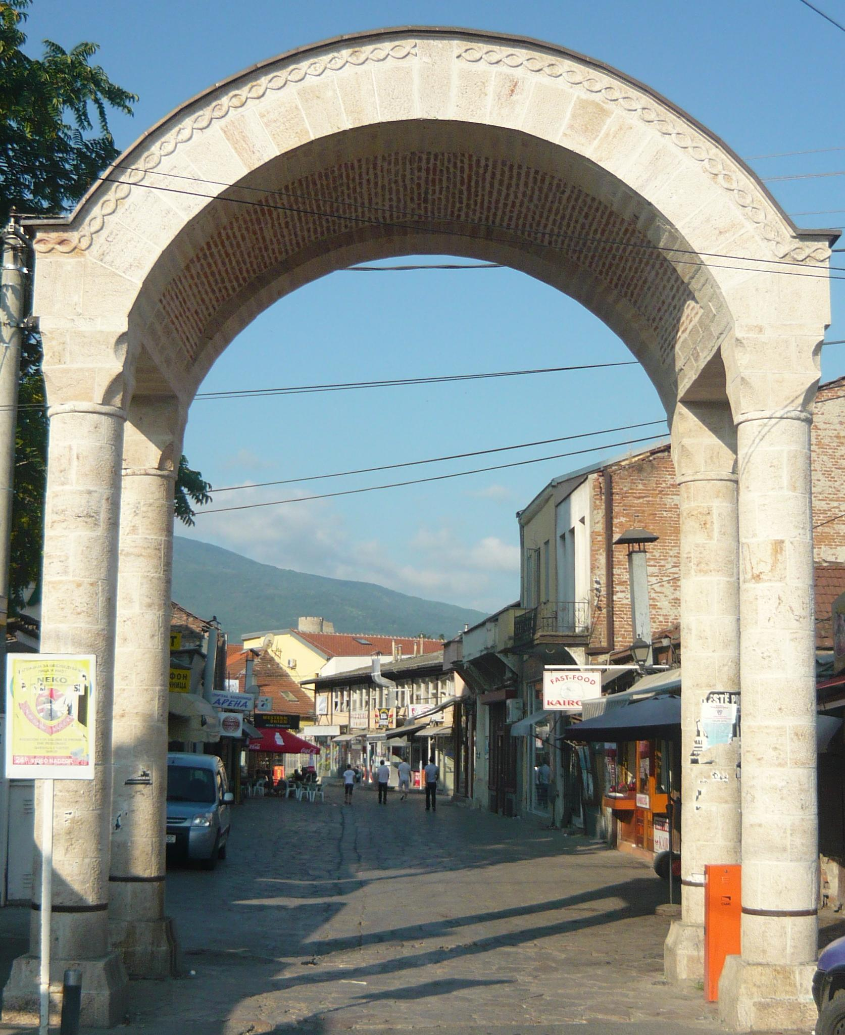 Entrance to Skopje's Old Bazaar